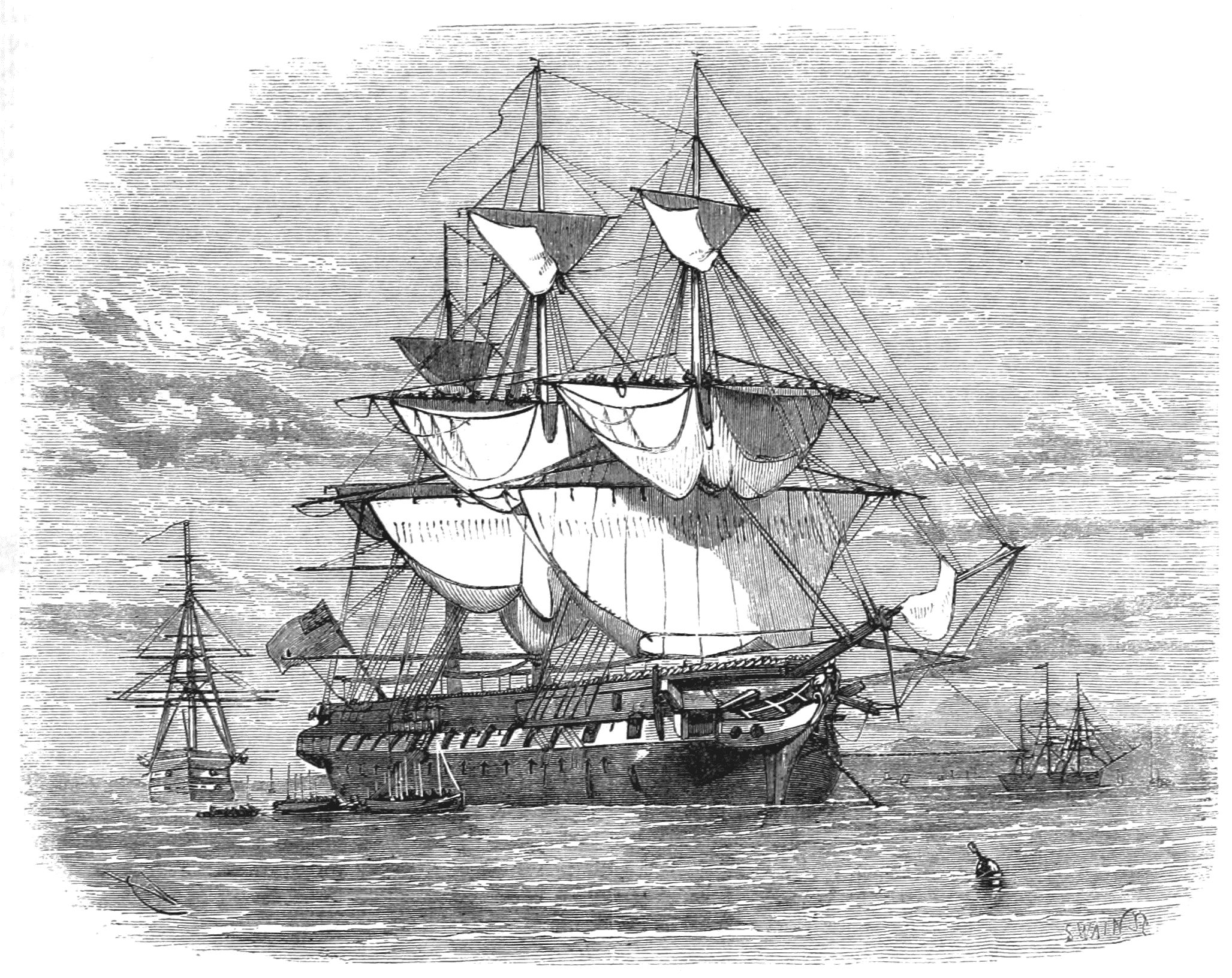 Illustration for an article: The school frigate, the Akbar; depicts a sailing vessel that was transformed into a reformatory school for criminal boys